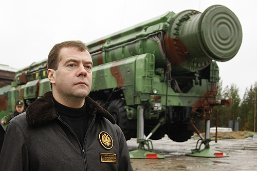 Dmitry Medvedev at Plesetsk Cosmodrome in front of the intercontinental ballistic missile Topol